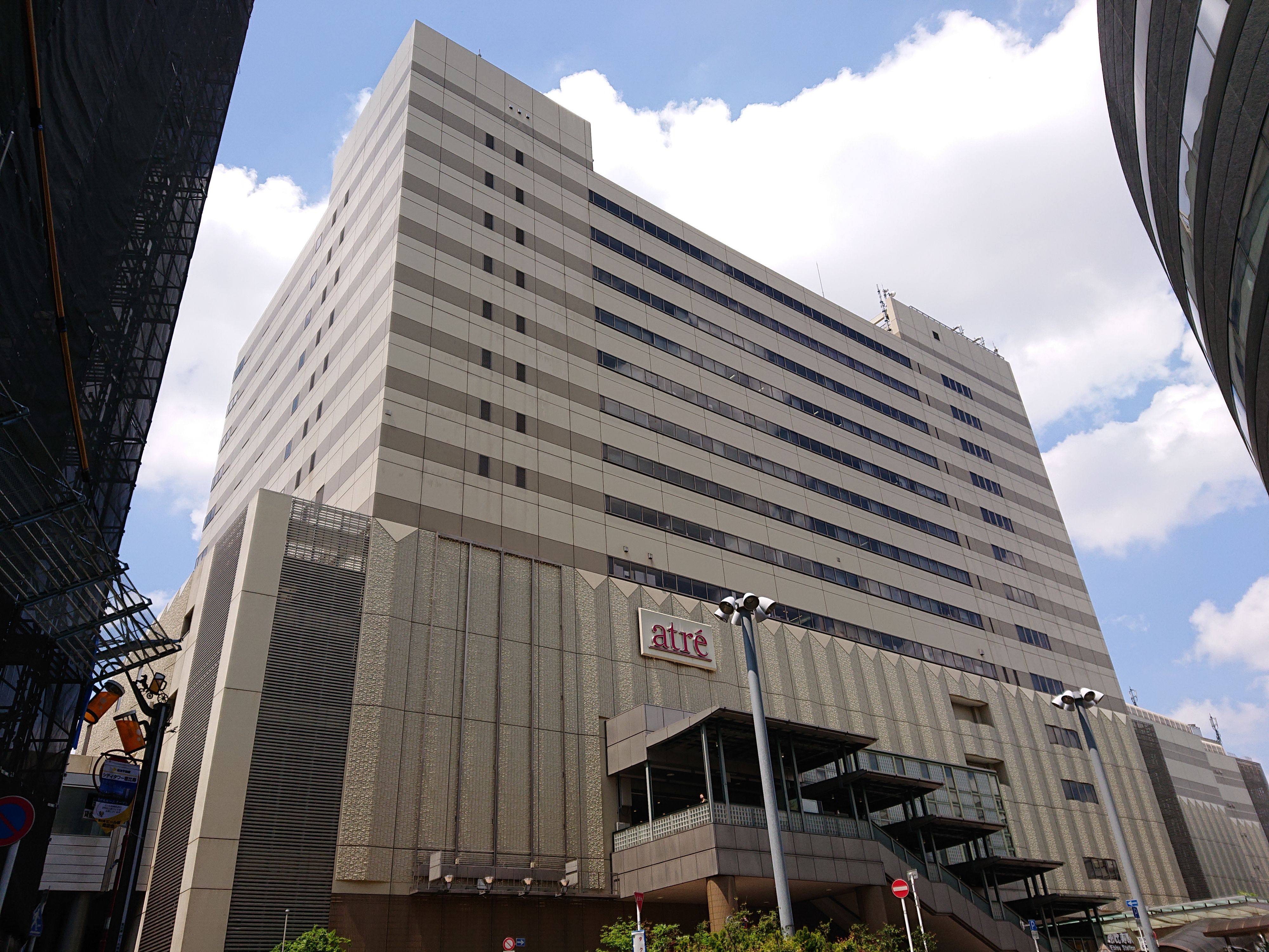 JR Ebisu Building, at 1-5-5, Ebisuminami, Shibuya, Tokyo, Japan